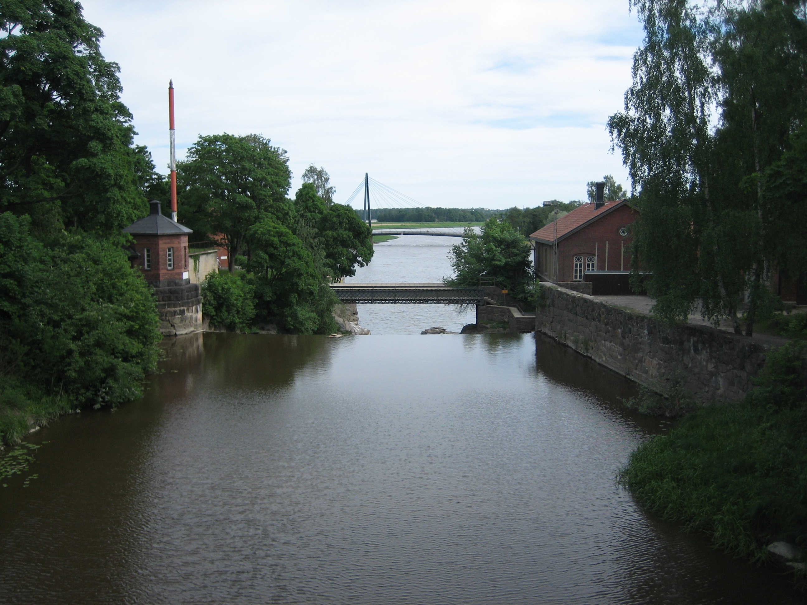 A Scenary to a small dam in Vantaanjoki, the Museum of Technology area and Viikki nature conservation area